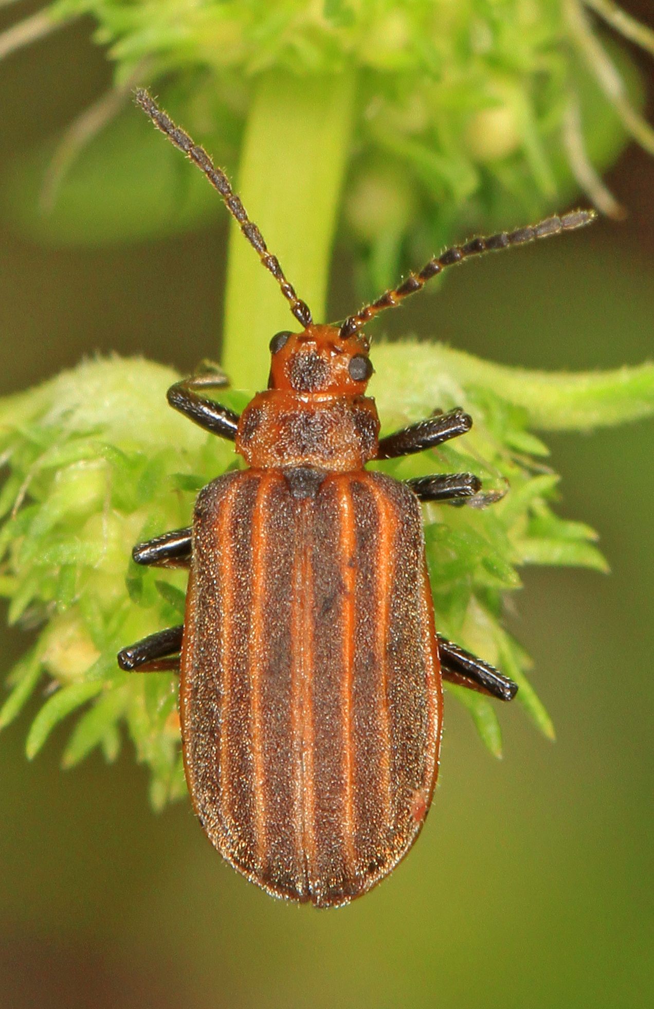 Leaf Beetle - Neolochmaea dilatipennis, Okaloacoochee Slough State Forest, Felda, Florida